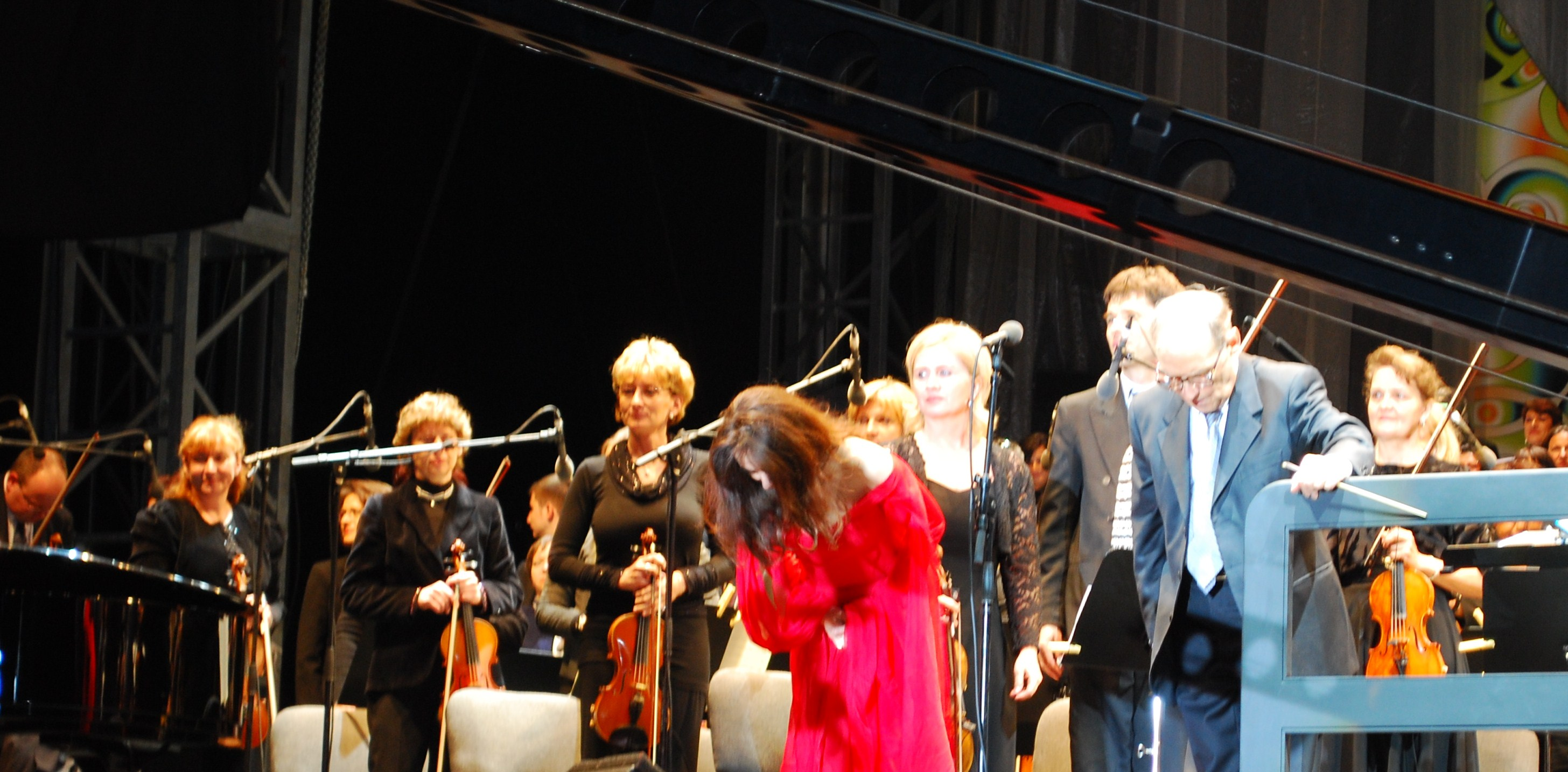 Ennio Morricone at the opening of Mawazine Festival in Rabat